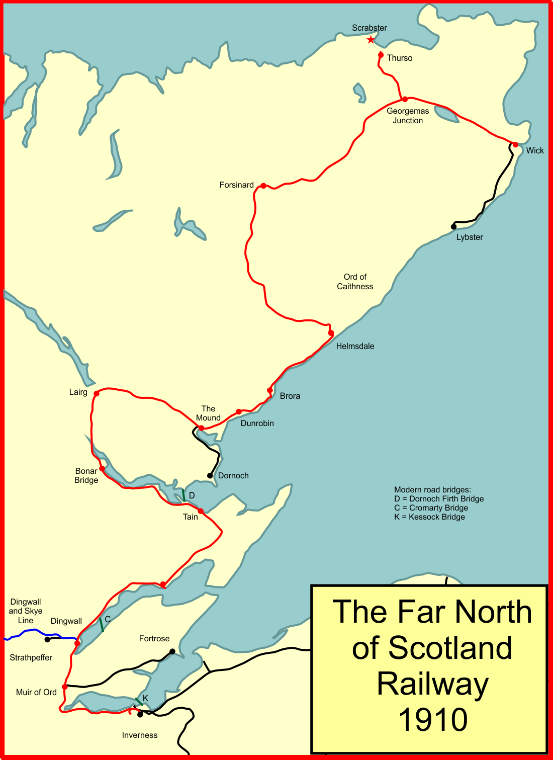 System map of the Far North Railway Line in Scotland (Inverness to Wick and Thurso)